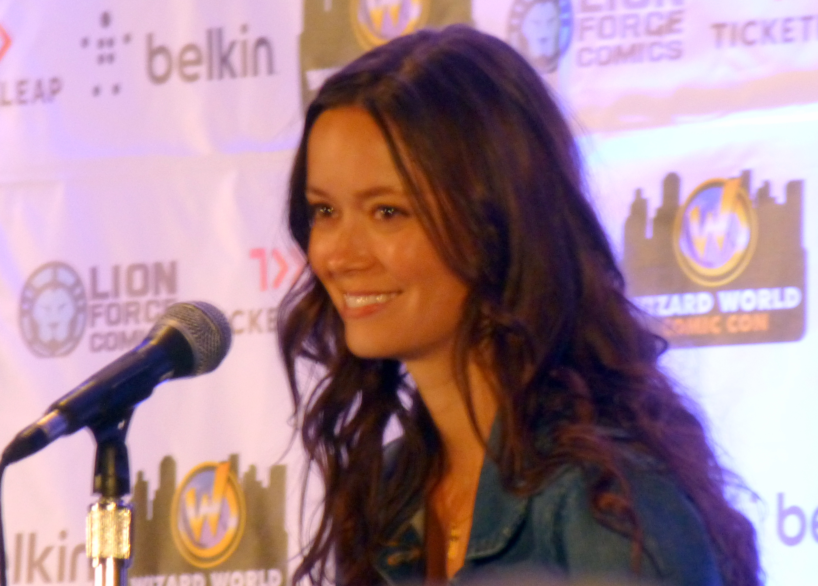 Q and A panel with Firefly/Serenity Alum: Summer Glau